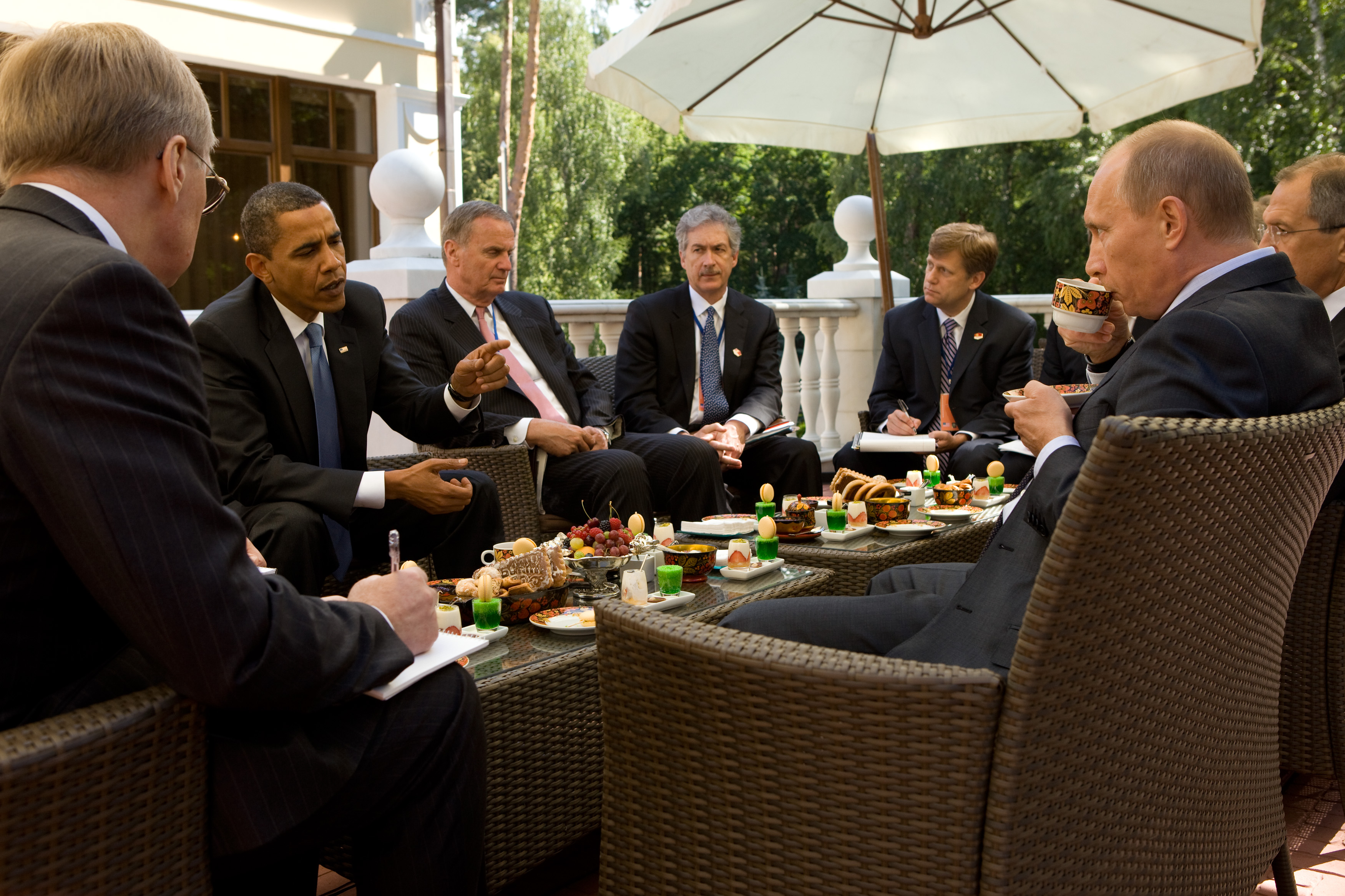 President Barack Obama and members of the American delegation, including National Security Advisor General Jim Jones, Under Secretary for Political Affairs Bill Burns, and NSC Senior Director for Russian Affairs Mike McFaul, meet with Prime Minister Vladimir Putin at his dacha outside Moscow, Russia, July 7, 2009.